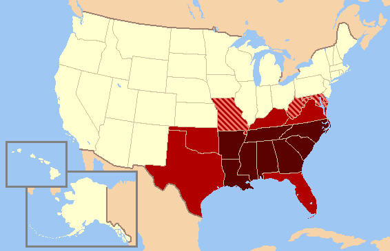 A map of the modern definition of the Southern United States, Oklahoma red. The states in dark red are almost always included in modern day definitions of the Southern United States, while those in medium red are usually included. Those cross-shaded are sometimes included due to their historic connections to the South.